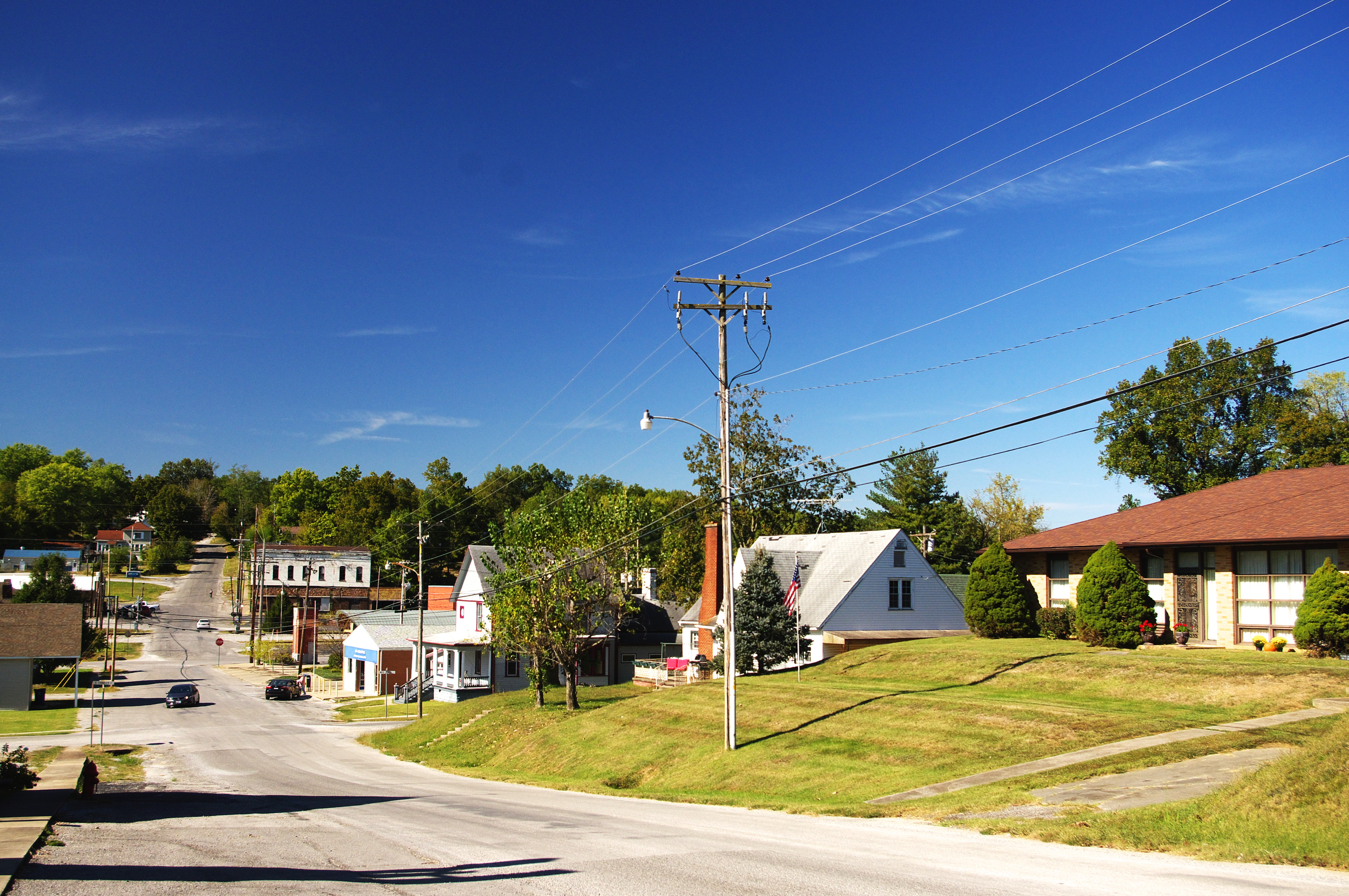 View along East Cross Street in Dongola, Illinois, United States.